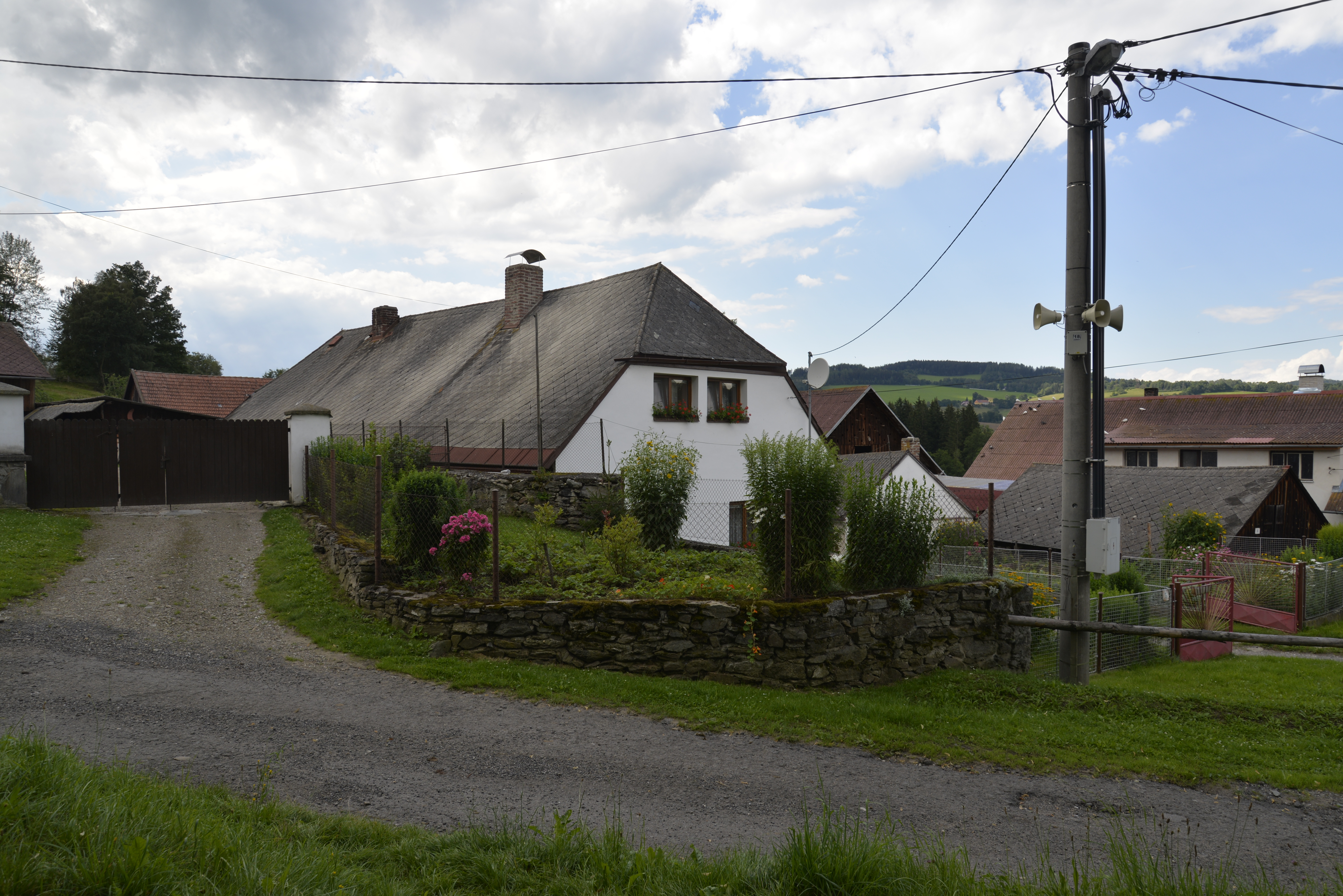 Trsice - small village, part of Petrovice u Sušice in Klatovy District